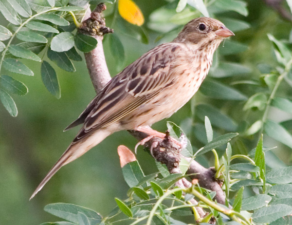 Ortolan Bunting Emberiza hortulana, female. Kherson oblast, Ukraine